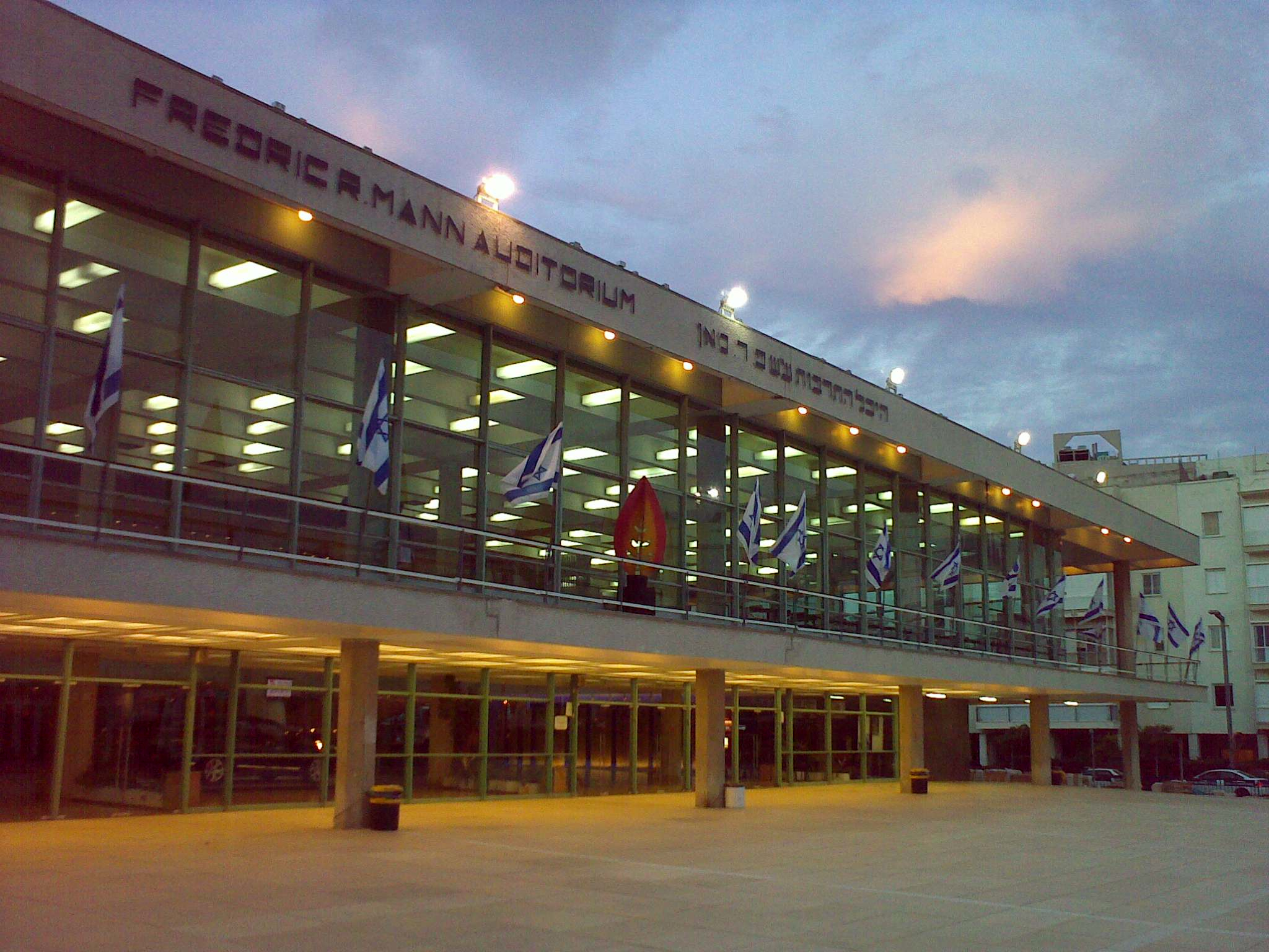 Fredric R. Mann Auditorium in Tel Aviv.